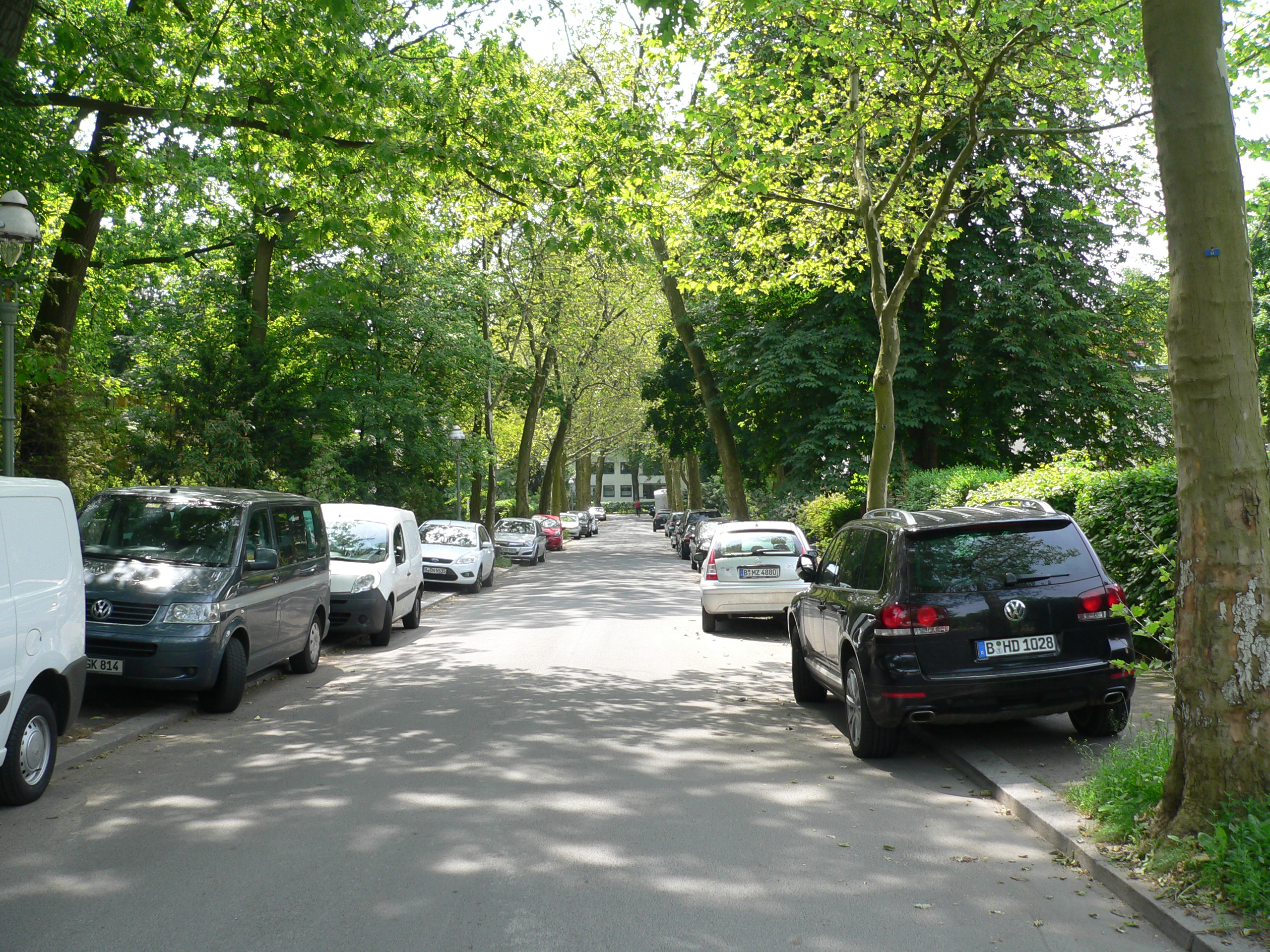 Berlin Grunewald Douglasstraße